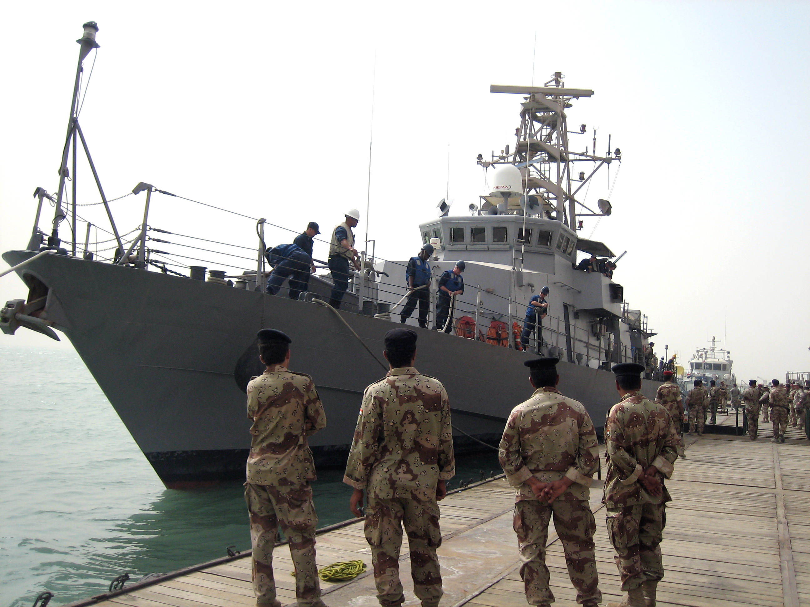 UMM QASR, Iraq (Aug. 13, 2008) Iraqi sailors look on from the pier as the coastal patrol boat USS Firebolt (PC 10) arrives at the port of Umm Qasr. Firebolt is making the port visit as part of Iraq Navy Day celebrations, marking the first visit by a U.S. ship to Iraq in more than 15 months. (U.S. Navy photo by Lt. Nathan Christensen/Released)